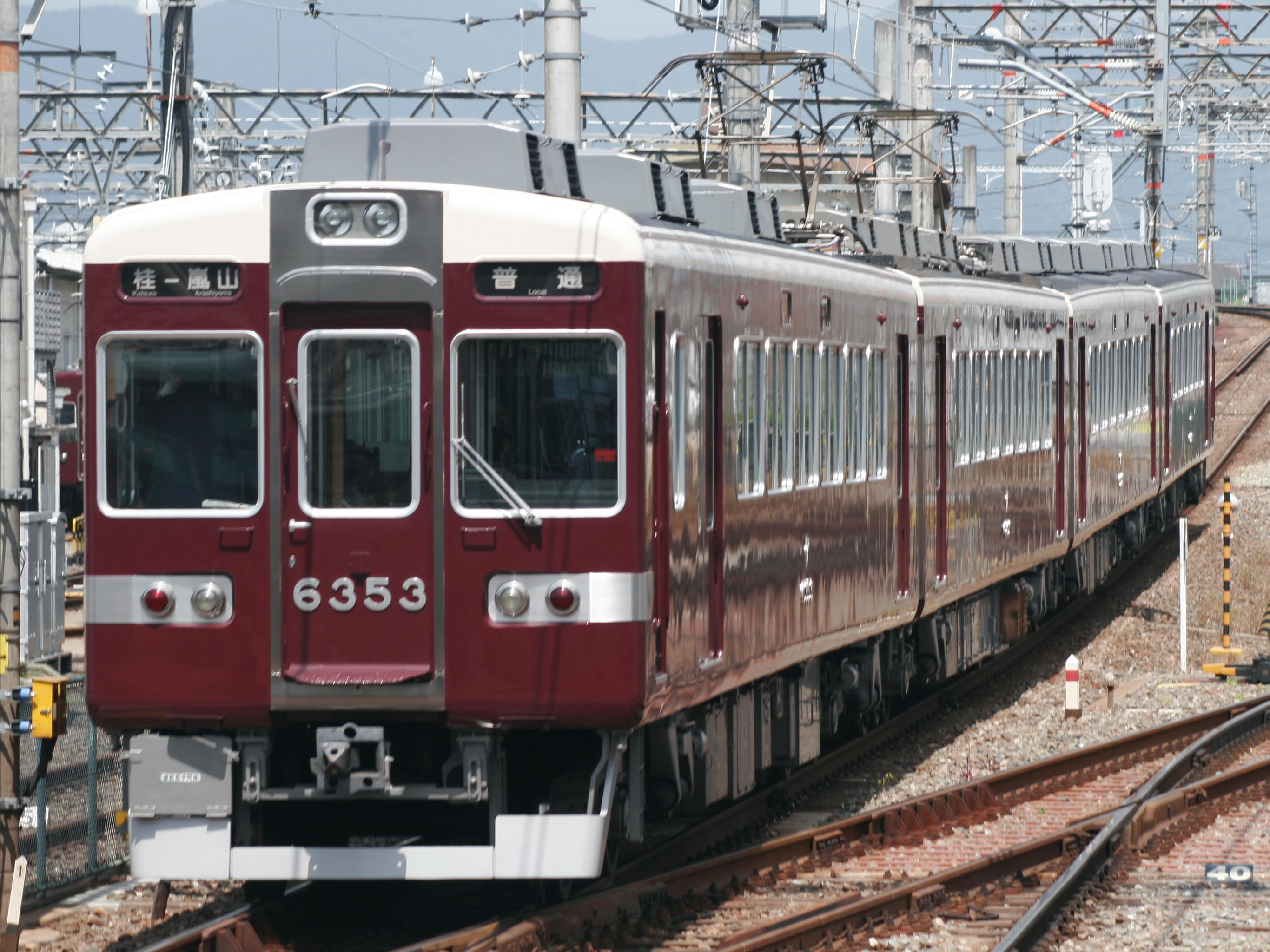 Hankyu 6300 Katsura Station